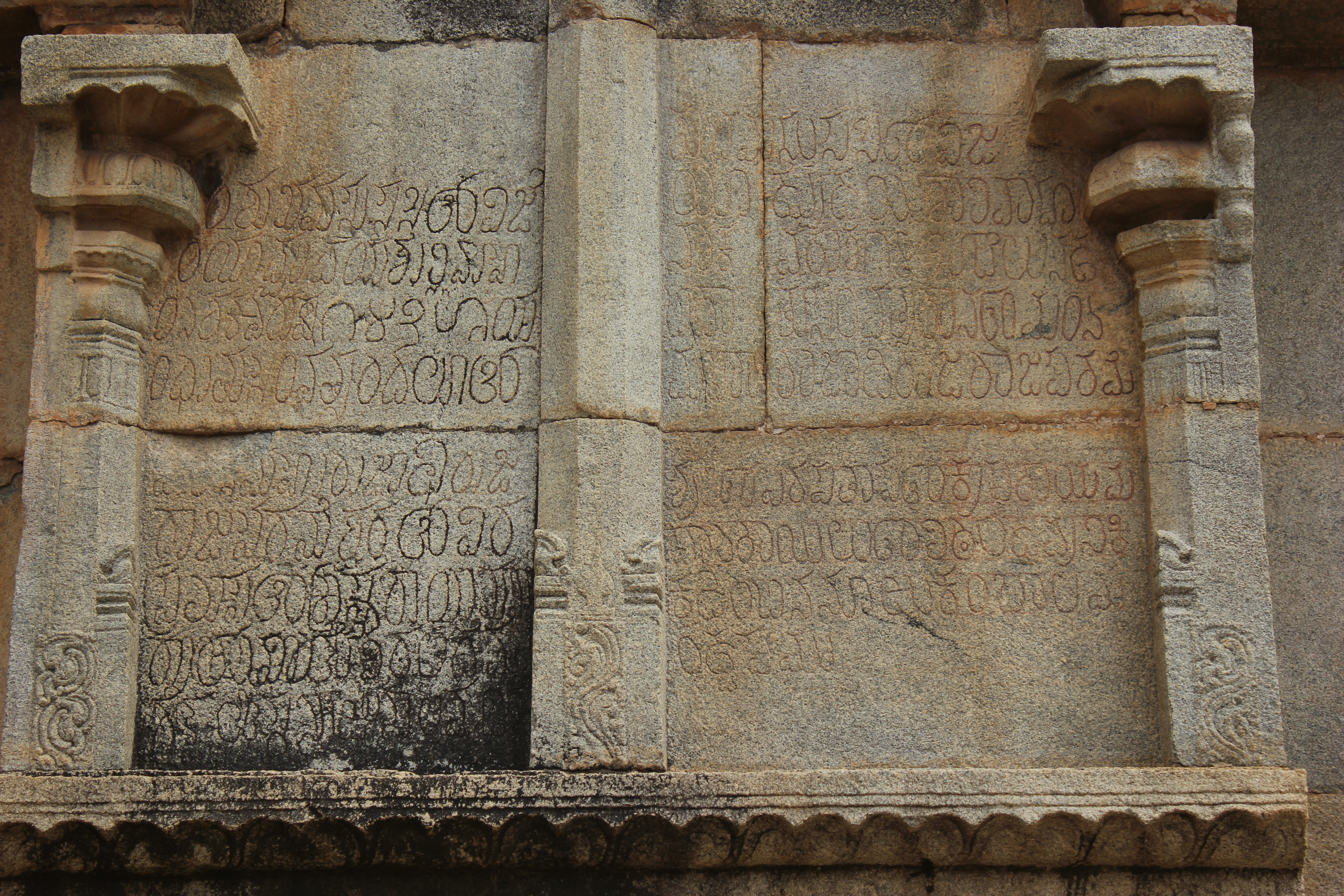 This photograph of a Kannada inscription (1516 AD) of Vijayanagara King Krishnadeva Raya was taken by me at the Vitthala temple complex in Hampi, a UNESCO world heritage site in the Bellary district, Karnataka state, India. Source info for inscription: South Indian Inscriptions-Miscellaneous Inscriptions in Kannada, Volume IX - Part - II, Dynasties Of Vijayanagara. No.502. Web